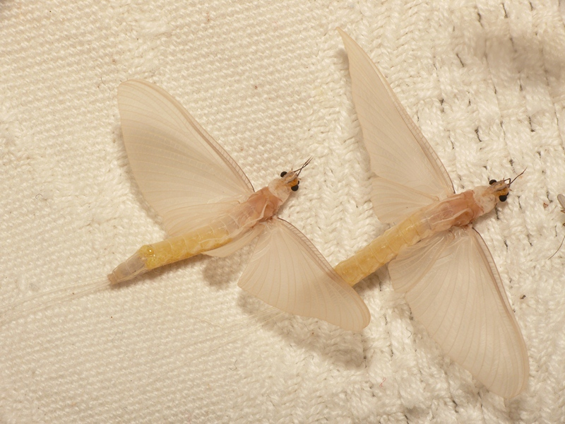 Ephoron virgo, subimago. Location: The Netherlands - Rhenen - Blauwe Kamer